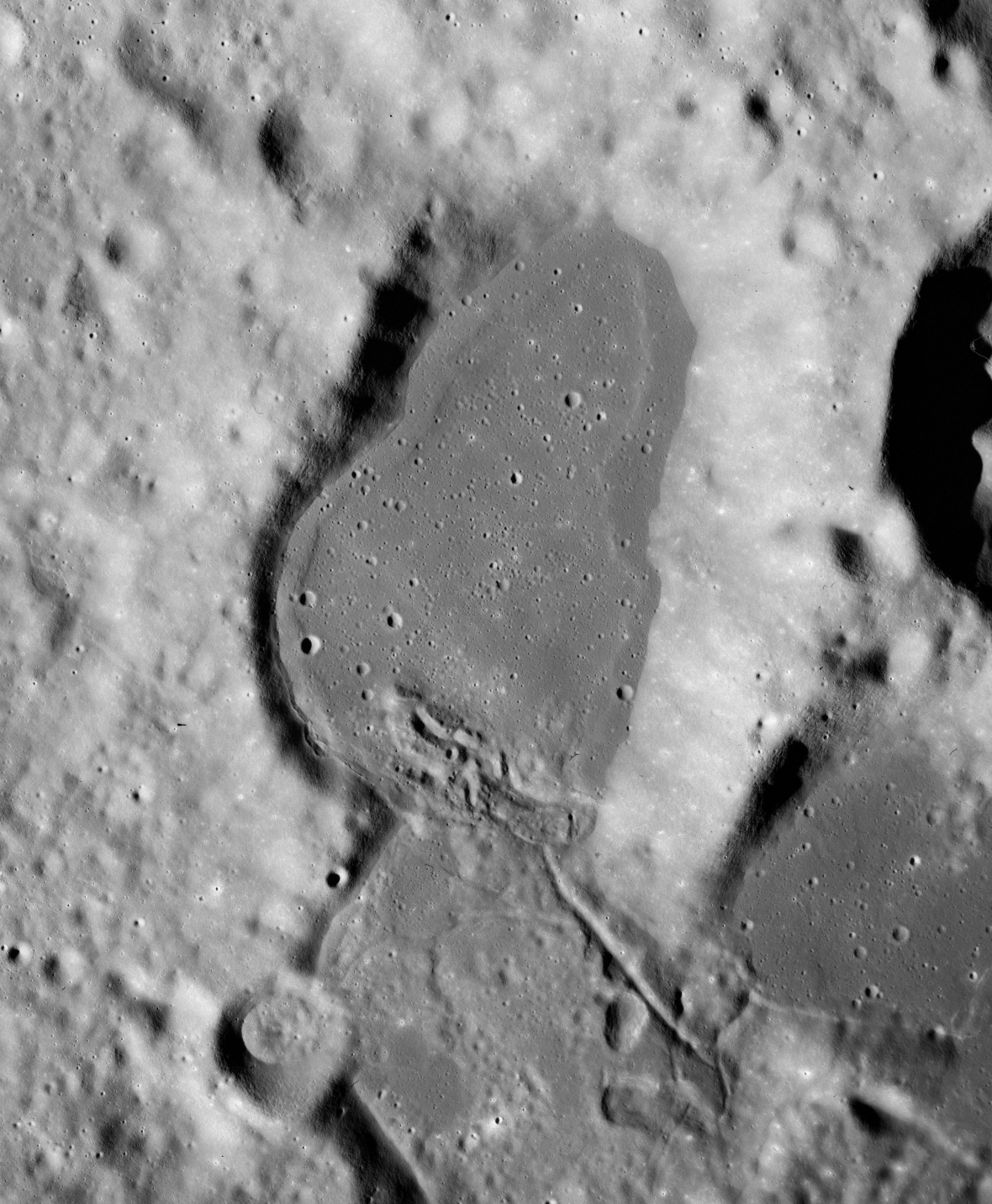 Bowditch crater on the far side of the moon. Spacecraft altitude: 117 km. Sun elevation: 18 deg.